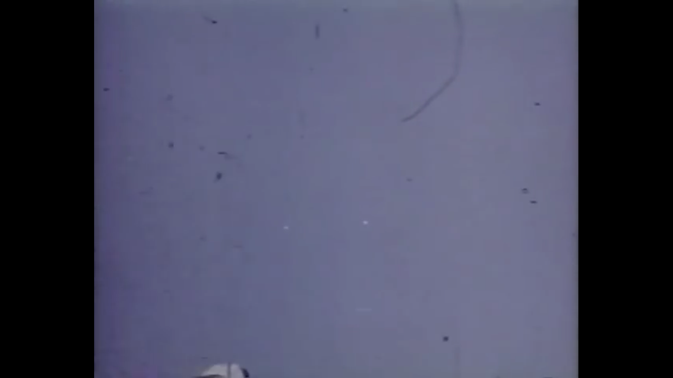 Famous sighting of Nick Marina, in 1950.